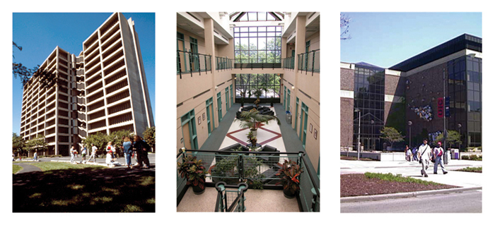 UIC College of Engineering 3 main buildings